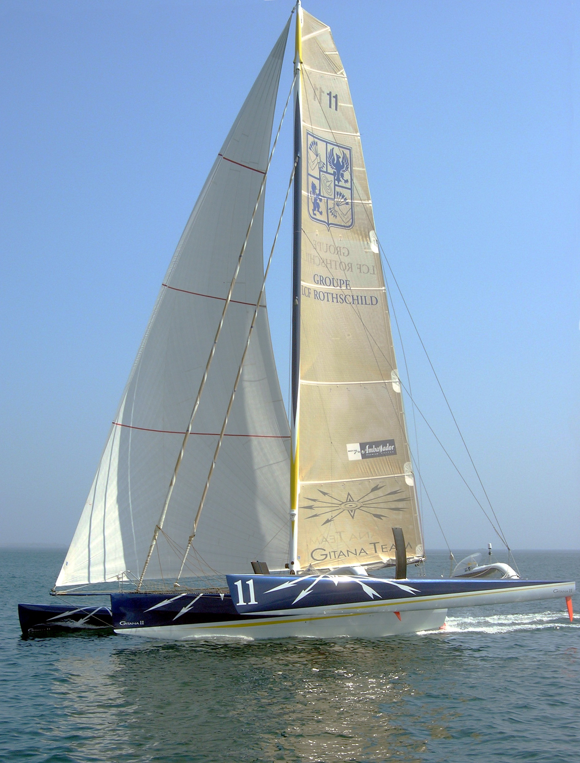 Description =Gitana 11 dans la baie de Quiberon Source =Photo taken by Remi Jouan Date =Aout 2006 Author =Remi Jouan